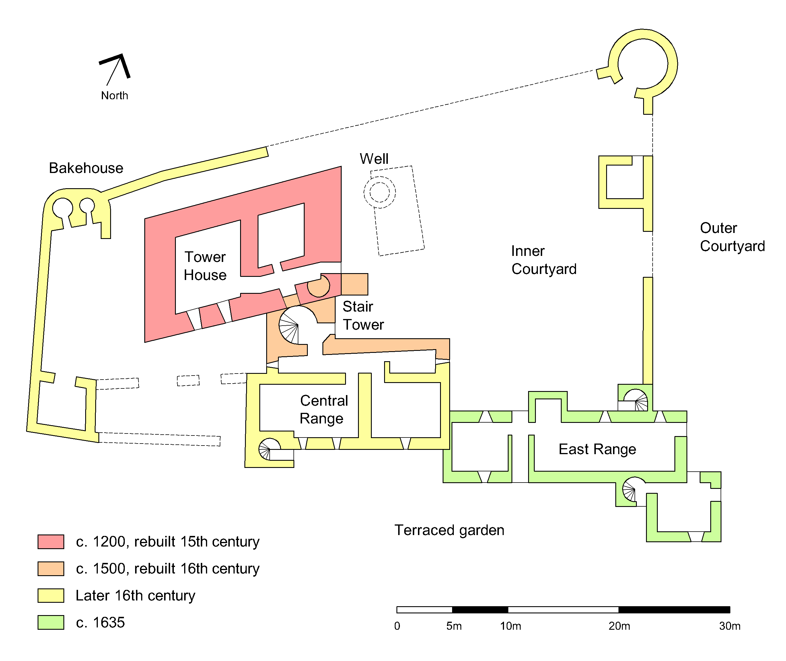 Ground floor plan of Aberdour Castle, Fife, Scotland, showing phases of onstruction.